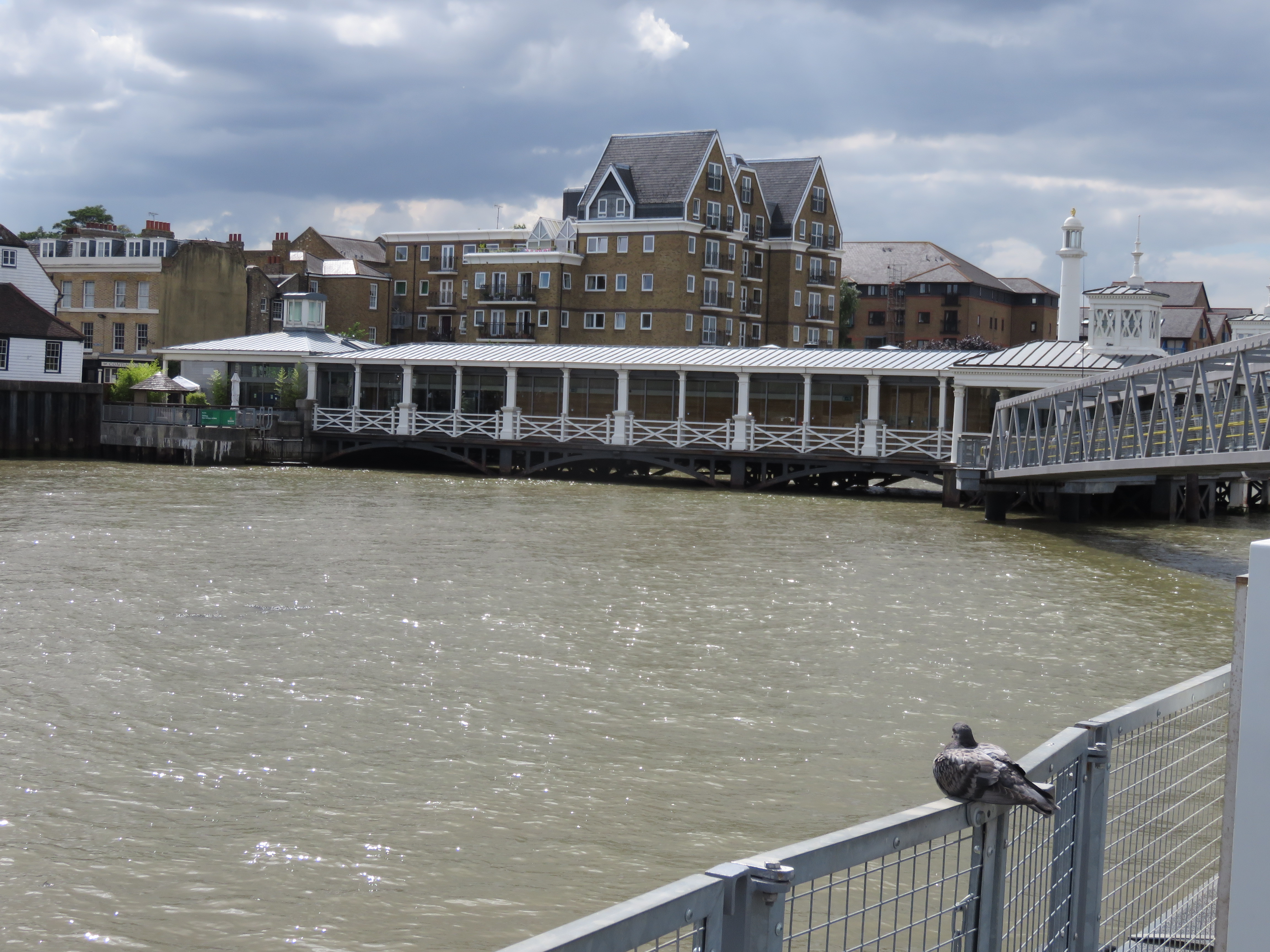 Taken from pontoon